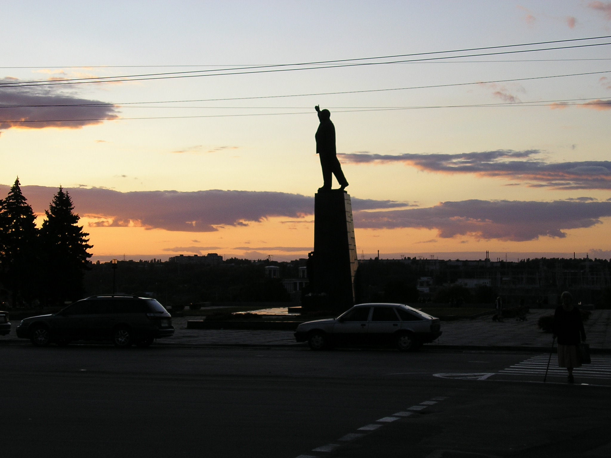 Zaporizhia